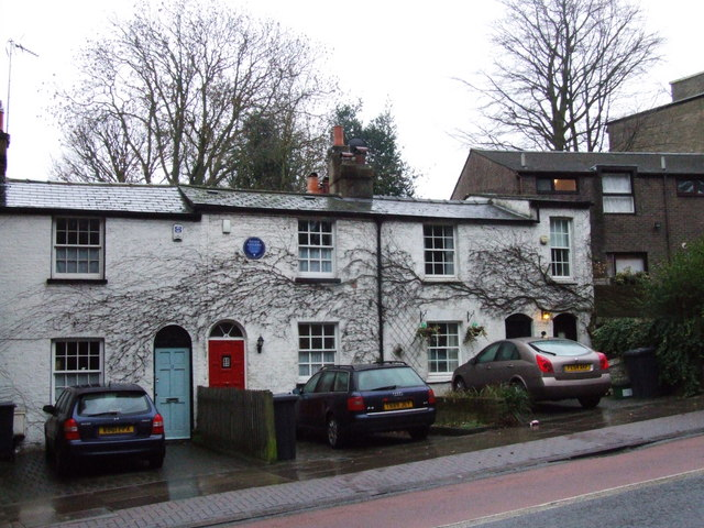 Cottages on Muswell Hill Road The one with the blue plaque was the childhood home of Peter Sellers.